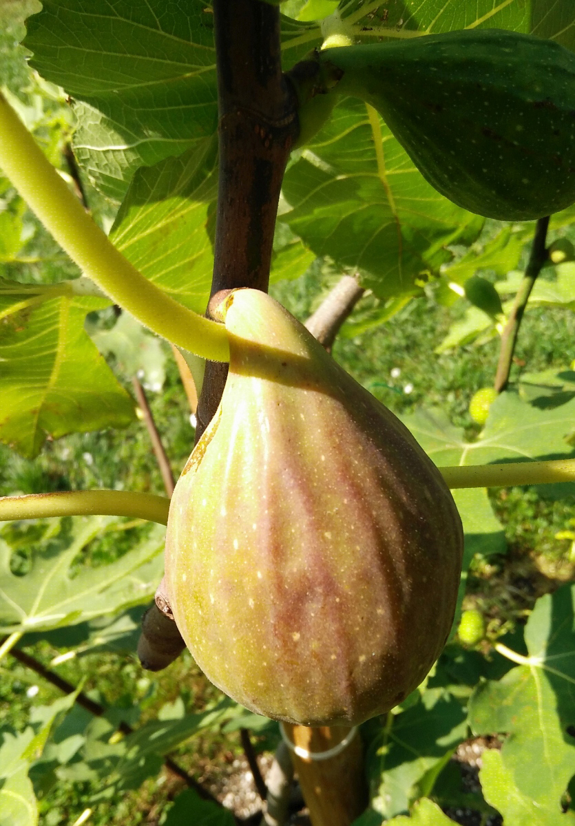 Breba of the Ficus carica fig variety Longe d'Août in Vienna.